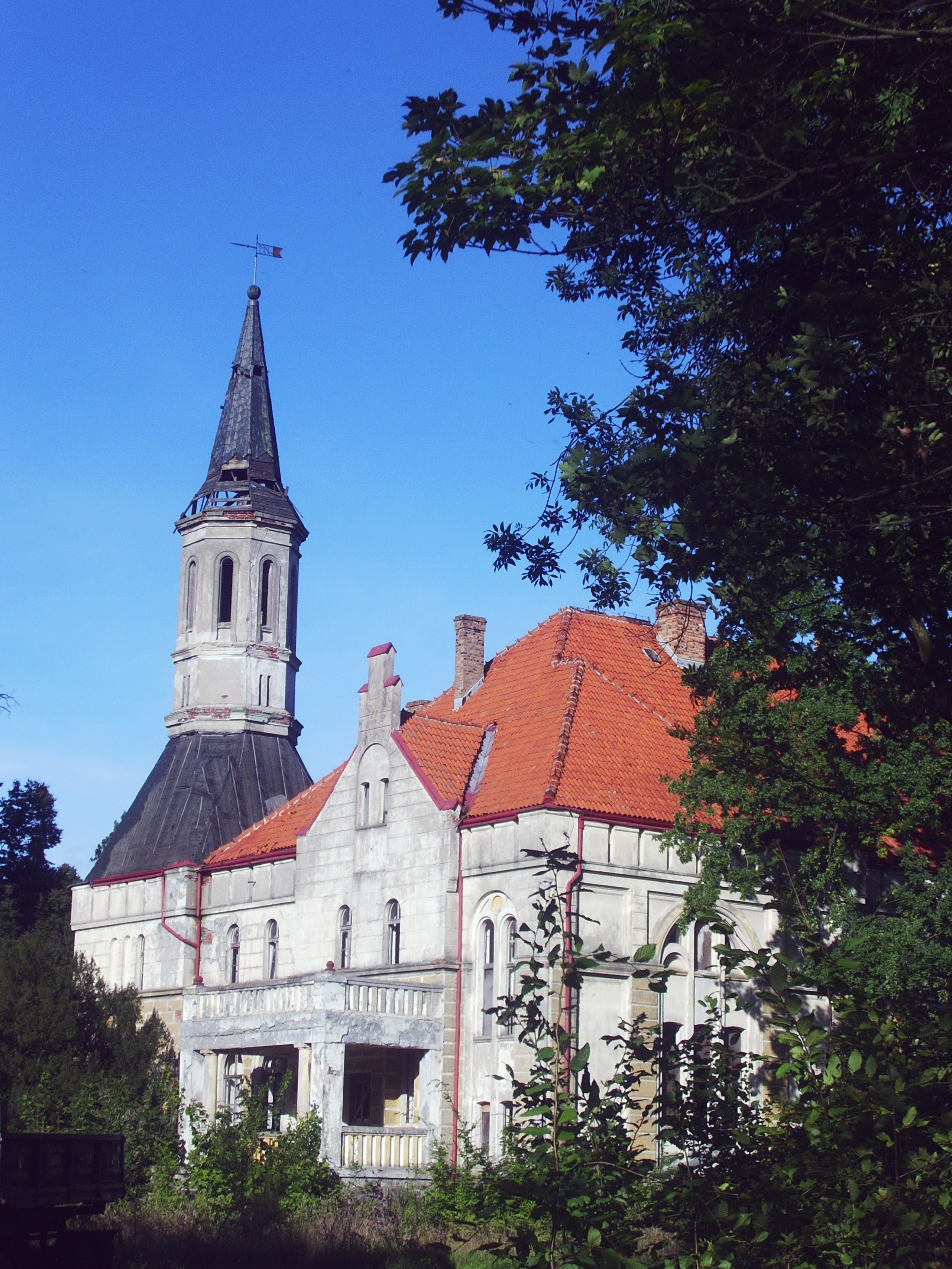 Noble palace of the second half of the nineteenth century, built in the neoclassical style. Around the building there is a large park complex.